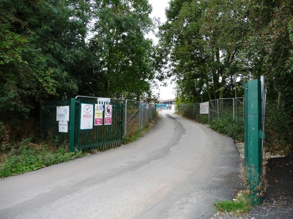 Entrance to construction site